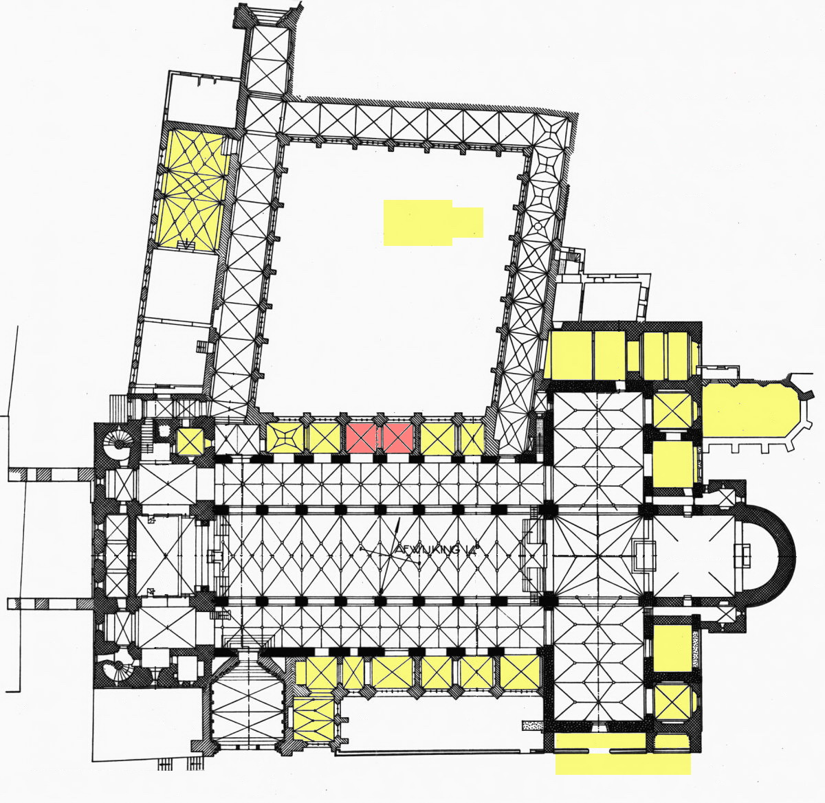 Locator map of chapels of the Basilica of Saint Servatius in Maastricht, the Netherlands. This map by an unknown author was first published in 1926 in Van Nispen tot Sevenaers De monumenten in de gemeente Maastricht, Deel 1, and donated to Wiki Commons by Rijksdienst voor het Cultureel Erfgoed on 7 January 2013. All colouring and other edits are by Kleon3. In yellow all 17 chapels of Sint-Servaasbasiliek in past and present. In red the chapel of Saint Antony of Padua, the middle one of the north aisle chapels.